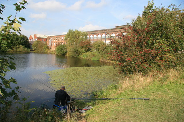 Penwortham Mill, near to Walton-le-Dale, Lancashire, Great Britain.